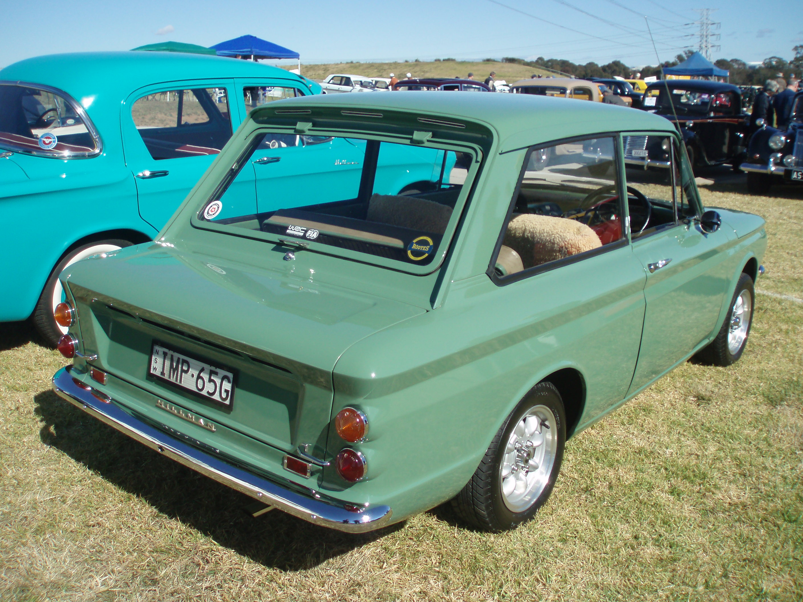 1965 Hillman Imp sedan. These were sold in Australia through Chrysler dealerships after Chrysler bought the Rootes Group. Taken at Shannon's Eastern Creek Classic 2008, held at Eastern Creek Raceway Sydney.